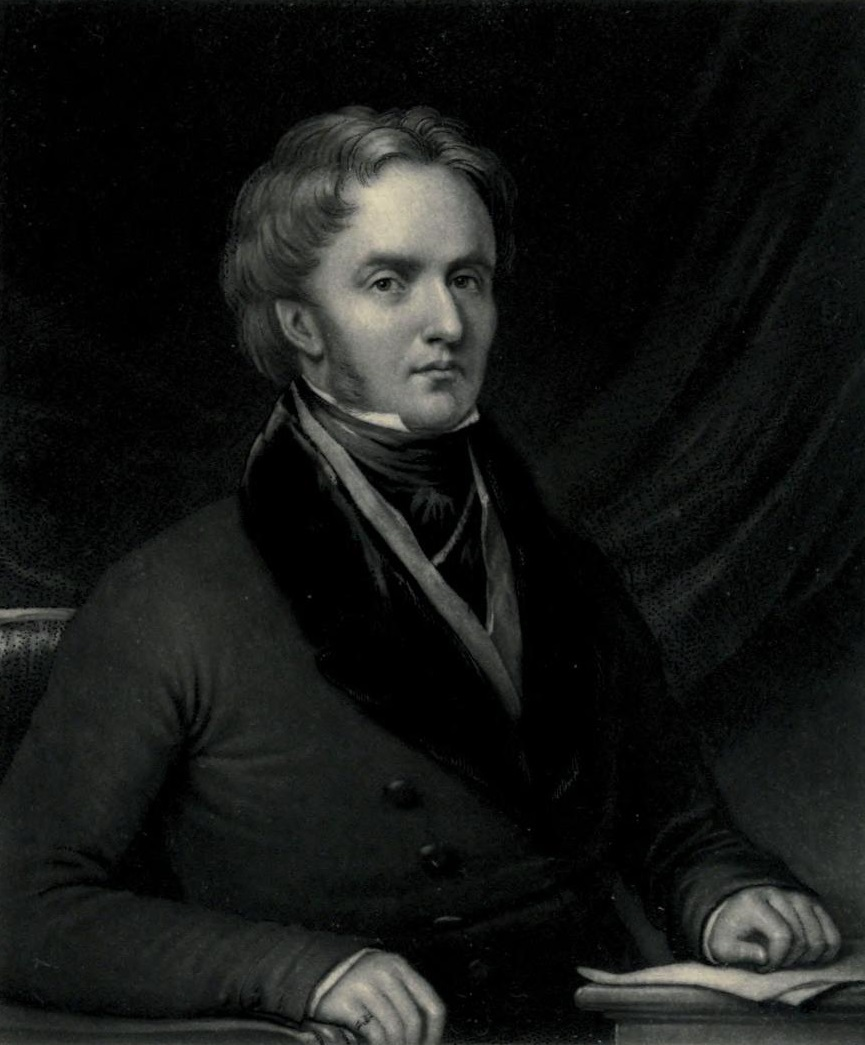 Engraved by Sartain.